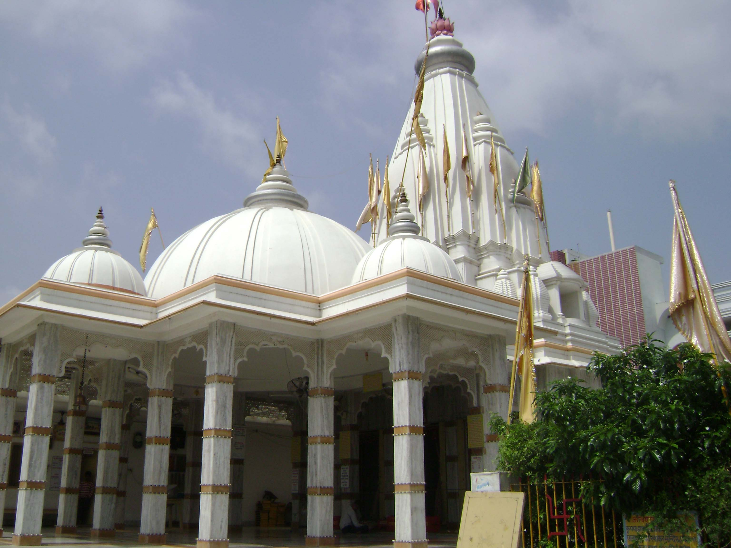 Shri Krishna (Shyam Mandir) Temple, located in Deoria district, Uttar Pradesh, India.